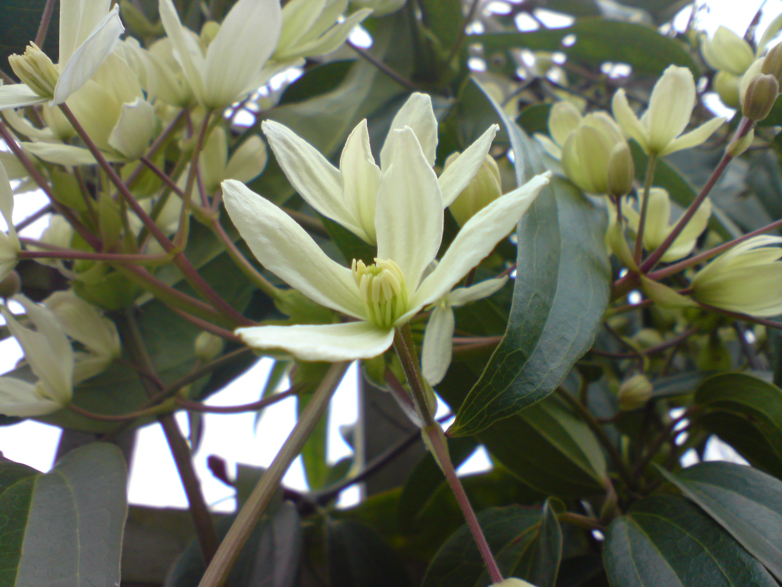 Clematis armandii in London.